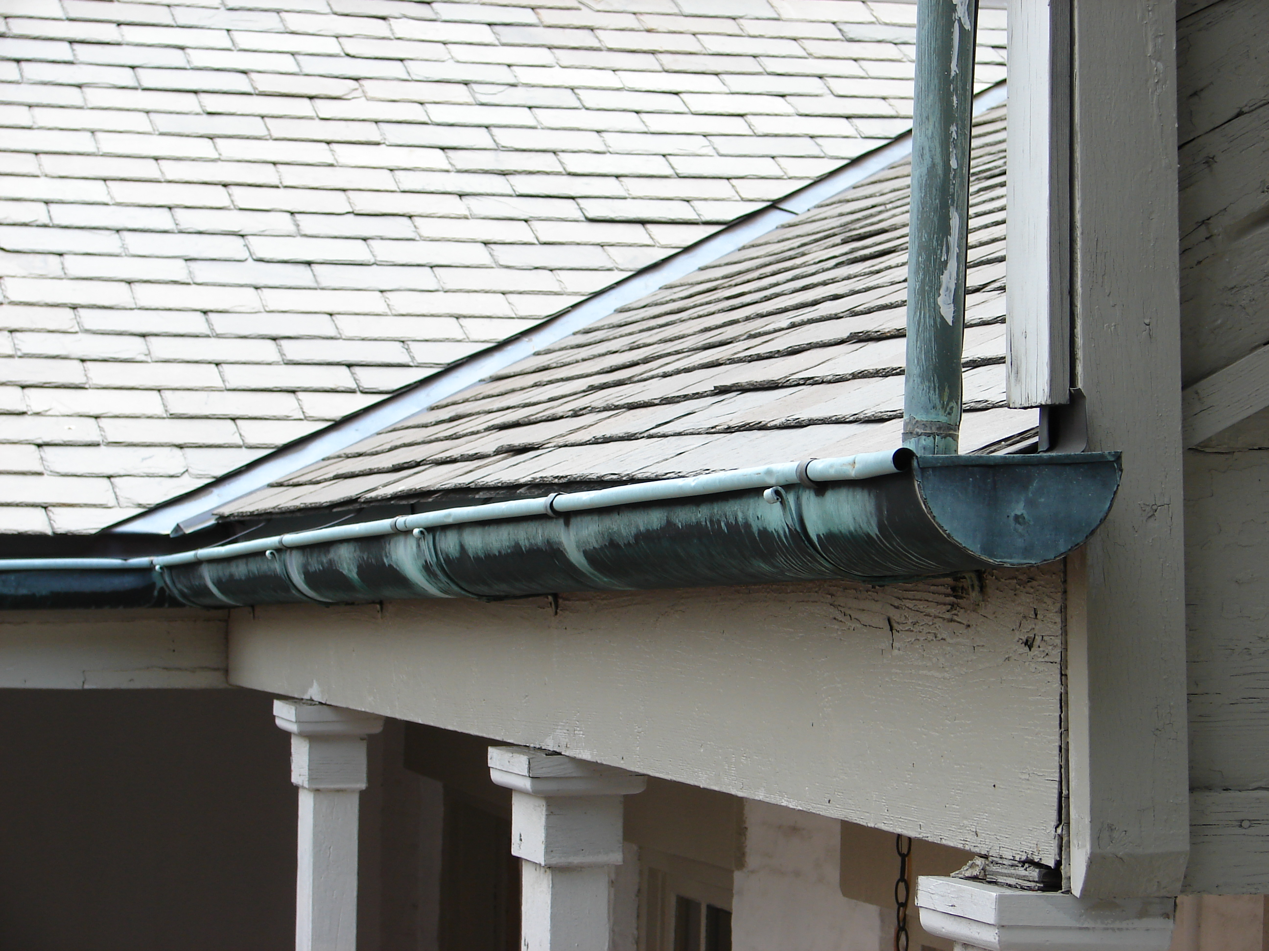 Rain gutters, at the 1850s House museum, New Orleans.